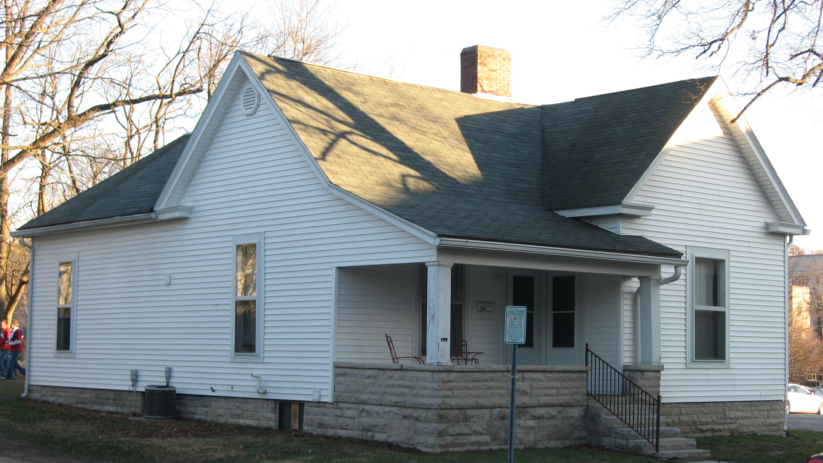 Front and northern side of the Hoagy Carmichael House, located at 214 N. Dunn Street in Bloomington, Indiana, United States. Built in 1900, it is part of the locally-designated North Indiana Avenue Historic District.